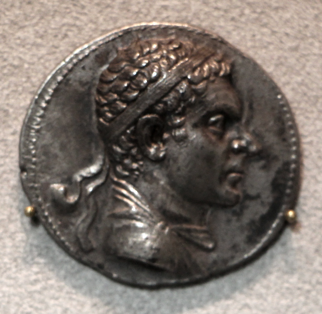 Ancient Greek coins in the Altes Museum Berlin